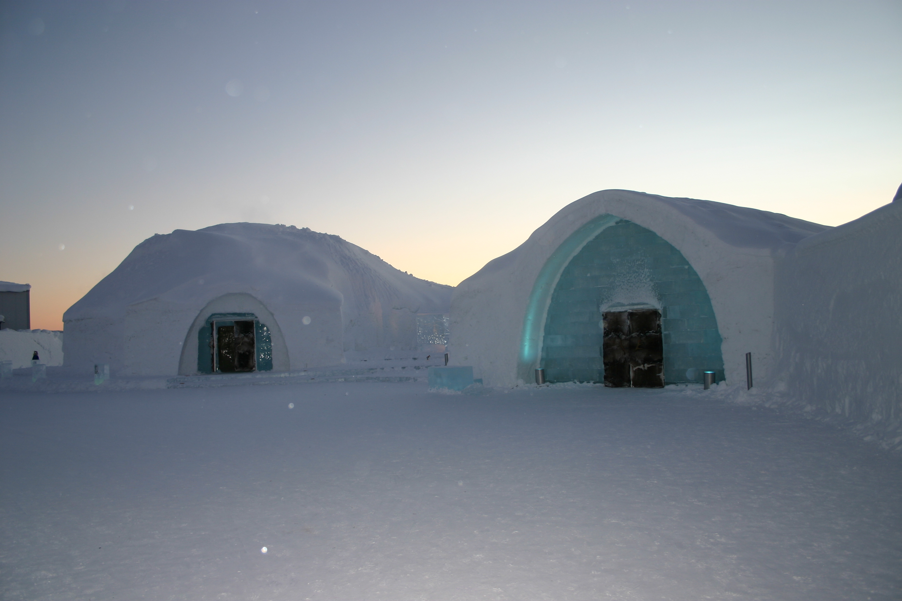 The Ice Hotel in Sweden. The Ice Hotel near the village of Jukkasjärvi, Kiruna, Sweden